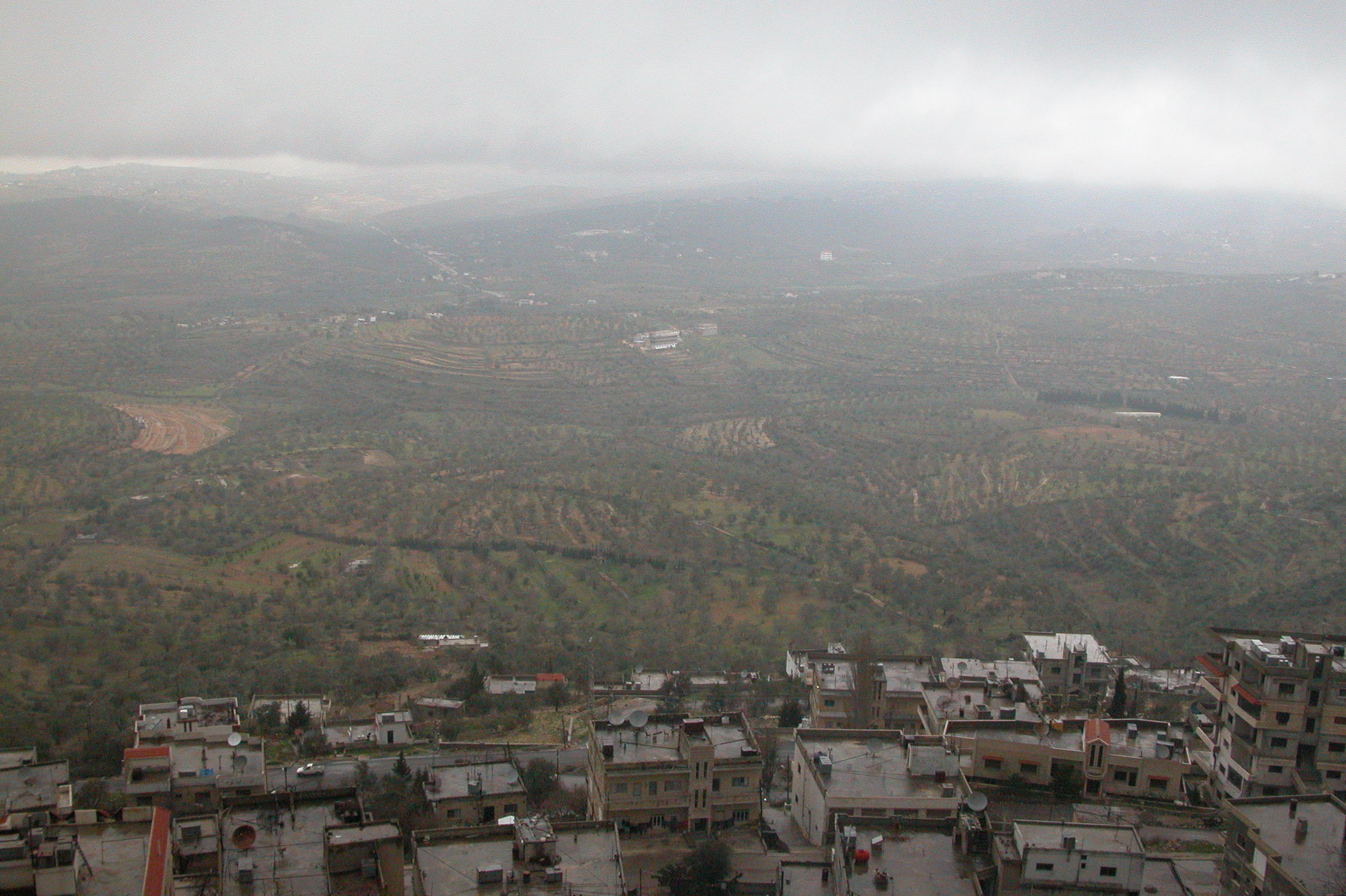 View of Safita from Chastel Blanc.